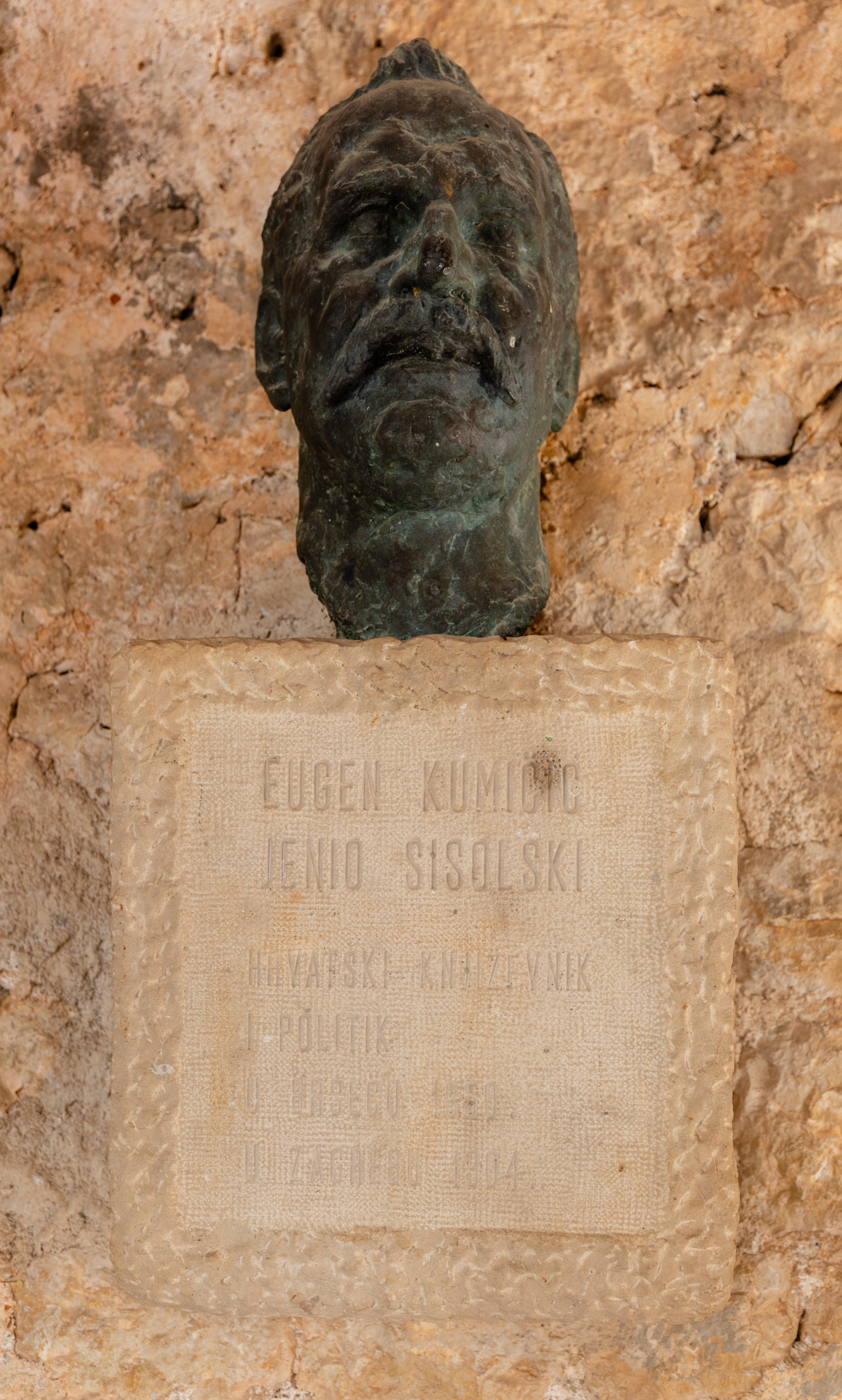 Bust of Eugen Kumičić, Brseč, Primorje-Gorski Kotar County, Croatia